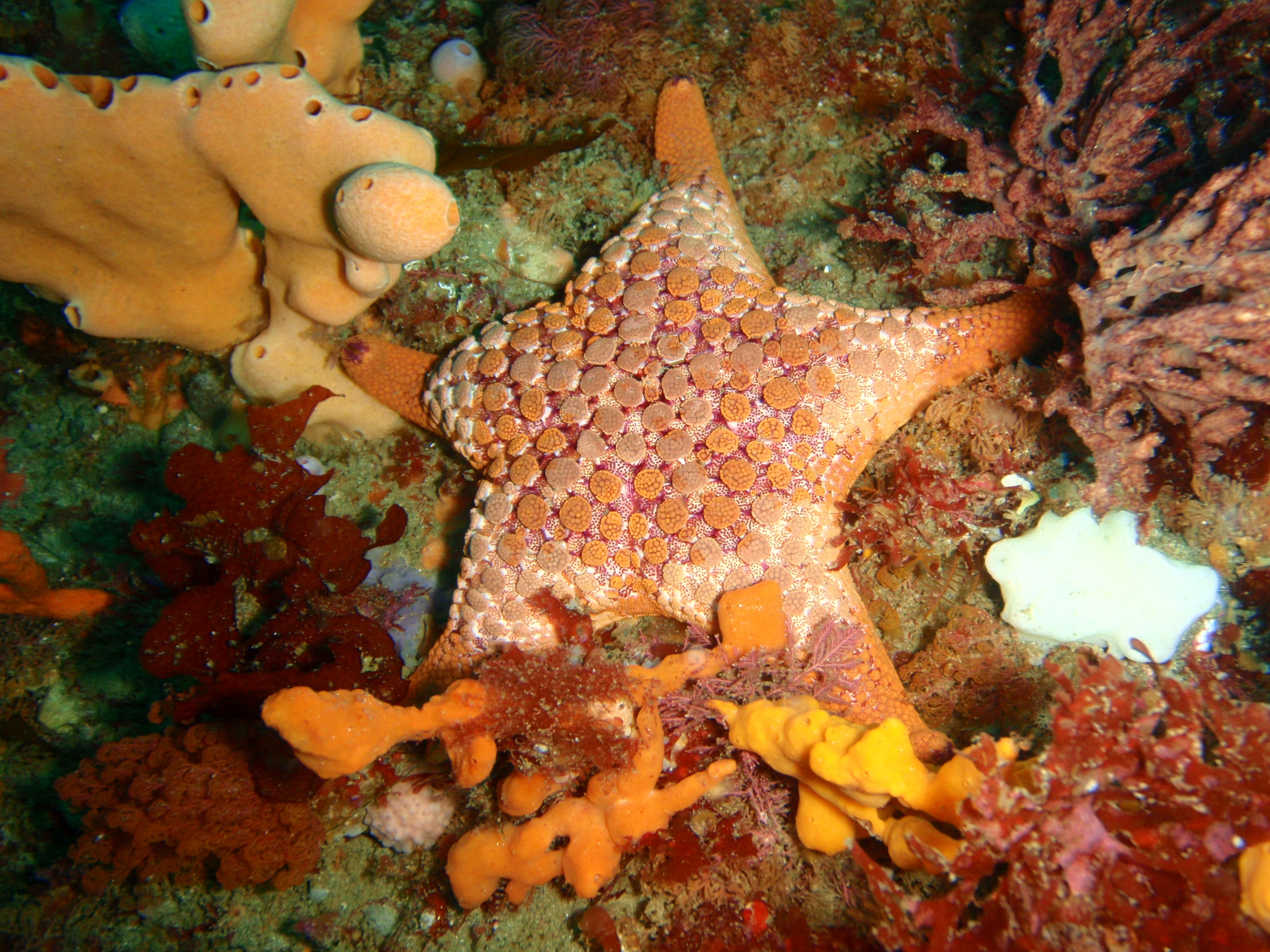 Spotted seastar Nectria ocellata at Trap Reef, Bichino, Tasmania